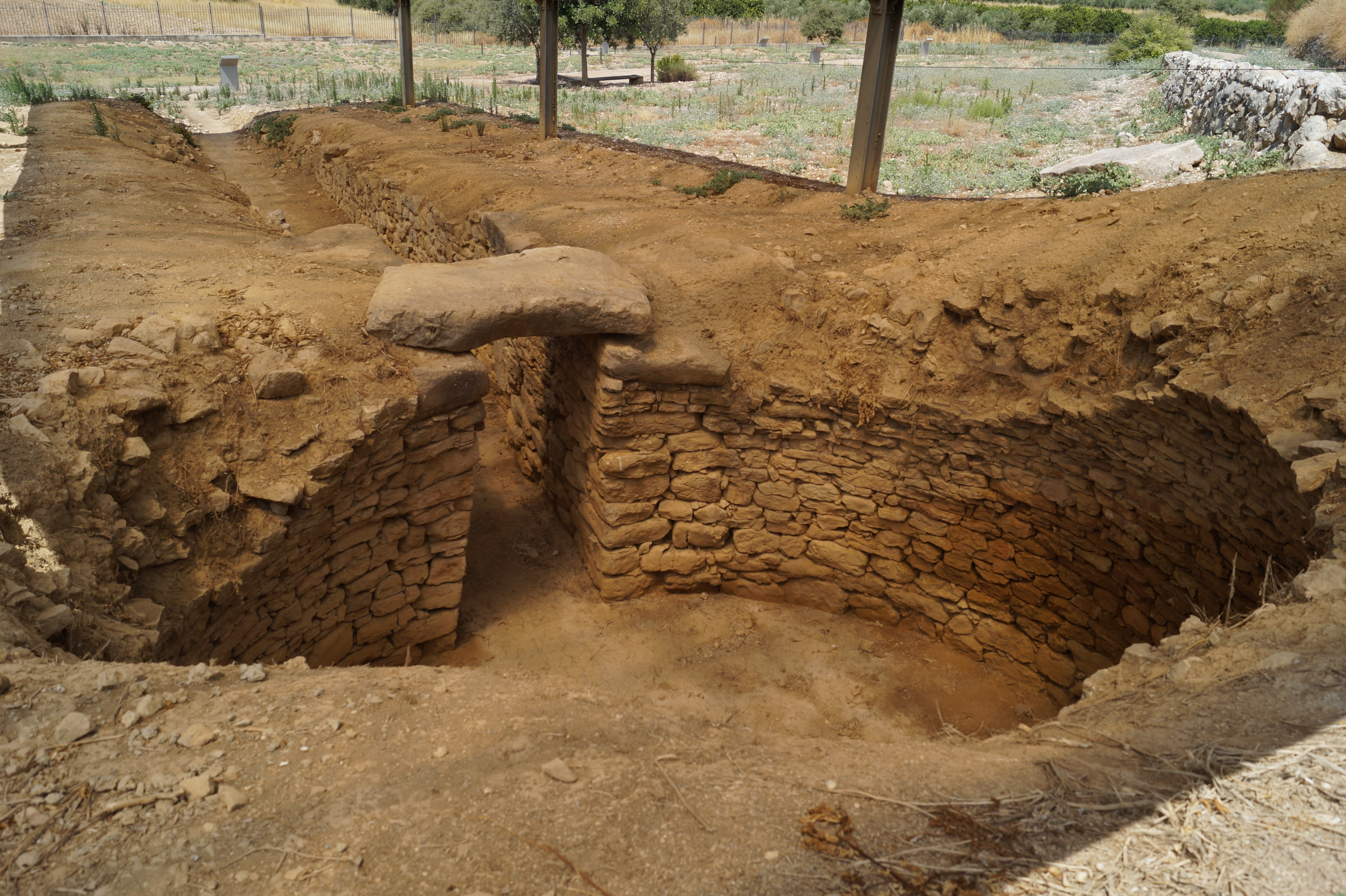 Dendra, Argolis, Greece: Tholos tomb of the mycenaean cementary.